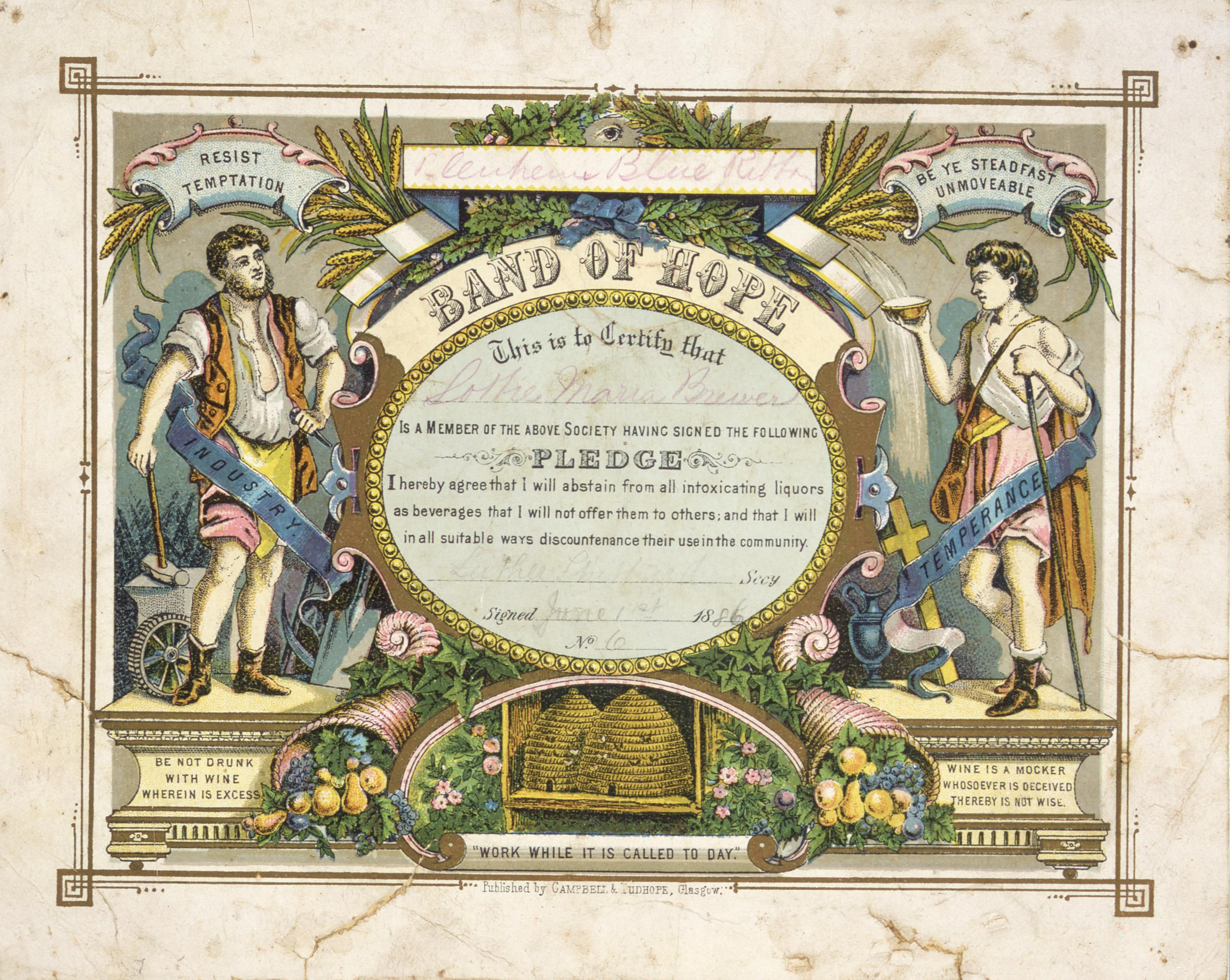 Shows text in inset oval, flanked by figures of Industry and Temperance, with beehives below, cornucopia and sheaves of grain, as well as homilies which include: "Resist temptation"; "Be ye steadfast, unmoveable"; "Be not drunk with wine wherein is excess"; "Wine is a mocker - whosoever is deceived thereby is not wise"; "Work while it is called to day". Quantity: 1 colour photo-mechanical print(s) on poster.. Physical Description: Chromolithograph, on card, 160 x 201 mm. Campbell & Tudhope (Firm). Band of Hope Temperance Society. Blenheim Blue Ribbon Branch :This is to certify that [Lottie Maria Brewer] is a member of the above society having signed the following pledge. [Luther Shelford, June 1886. no 6]. Published by Campbell & Tudhope, Glasgow. [ca 1886].. Ref: Eph-D-ALCOHOL-Temperance-1886-01. Alexander Turnbull Library, Wellington, New Zealand.